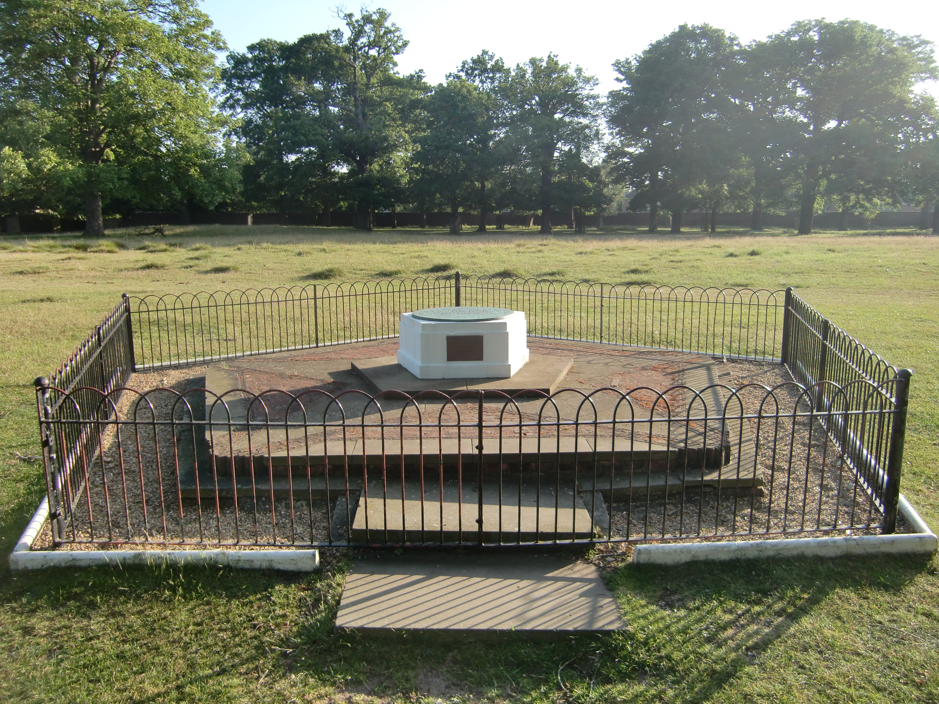 USAAF memorial on the site of camp Griffiss, Bushy Park